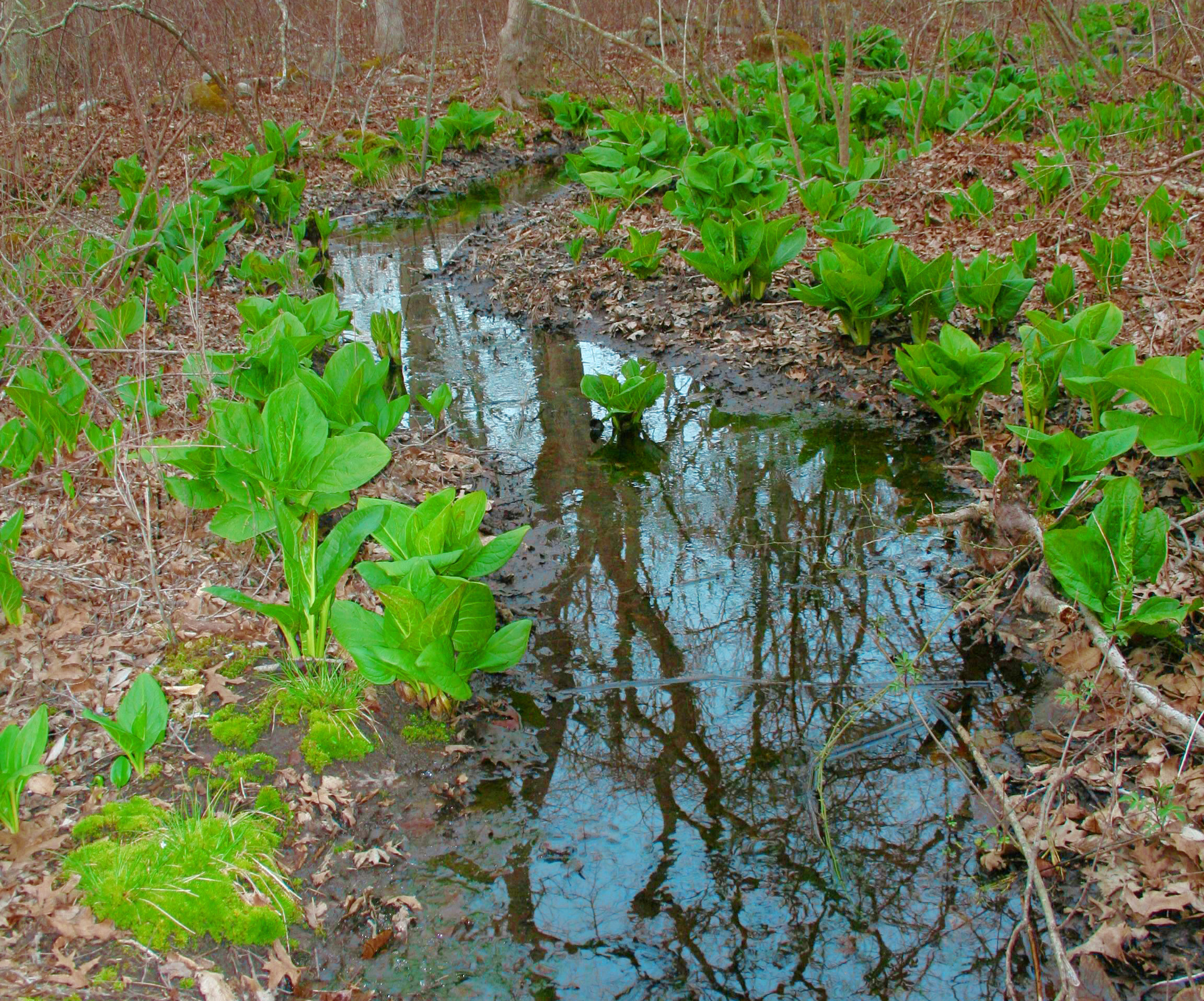 This photograph depicts early spring growth of eastern skunk cabbage in the middle of the woods in a shallow valley located along a flowing brook on the island of Martha's Vineyard.